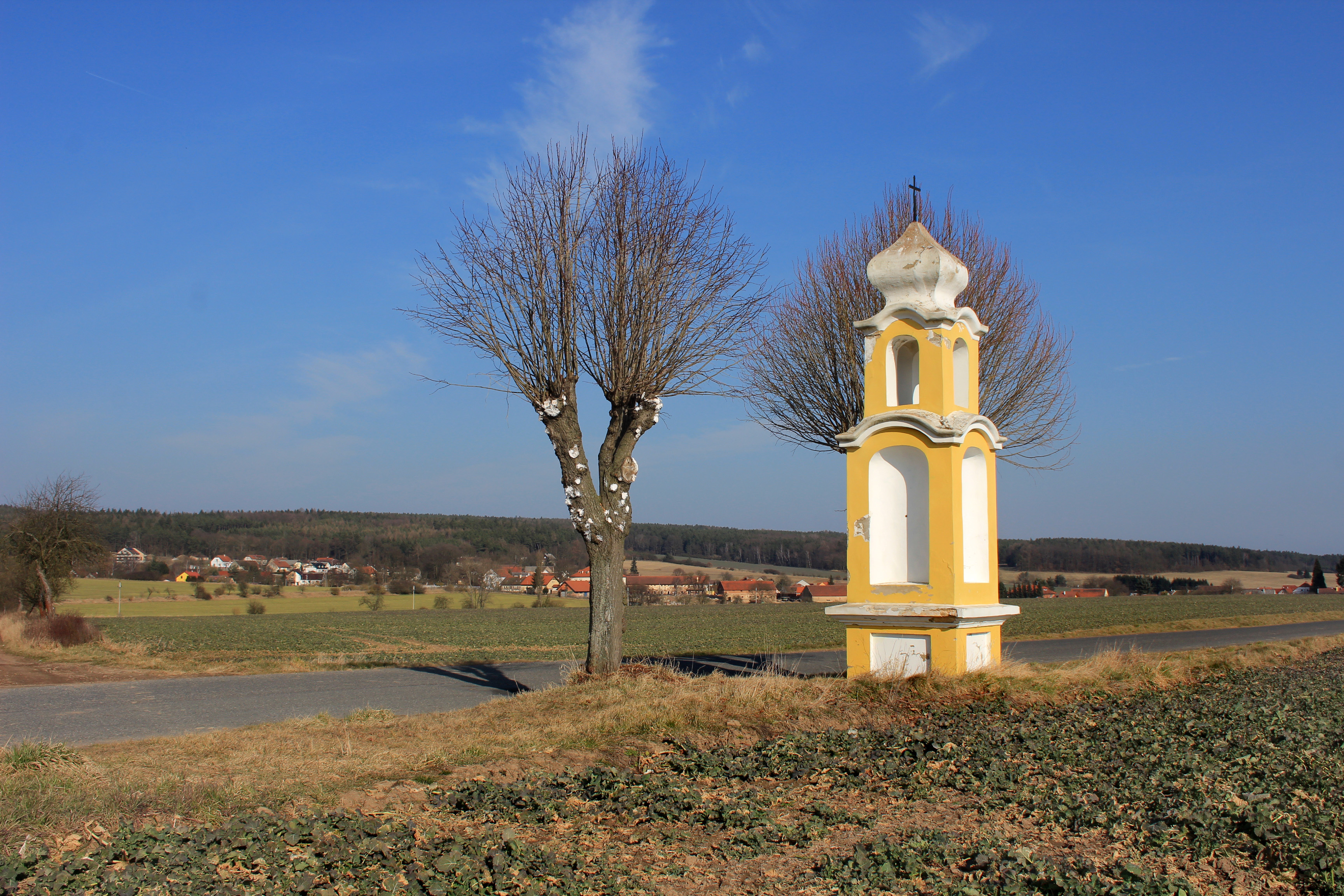 Wayside shrine by Rochlov, Czech Republic.